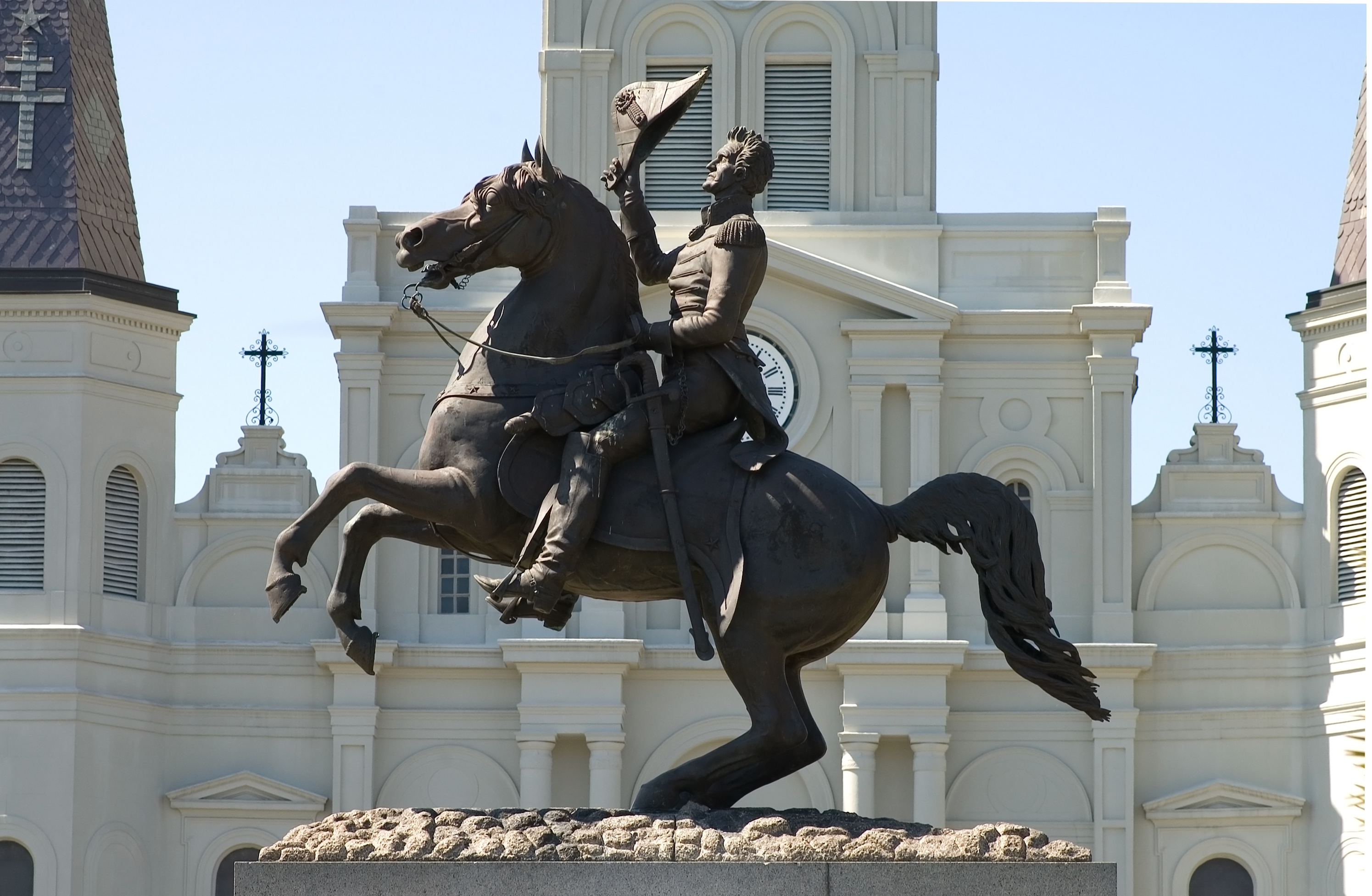 Statue of Andrew Jackson, sculpted by Clark Mills, in French Quarter of New Orleans, Louisiana.